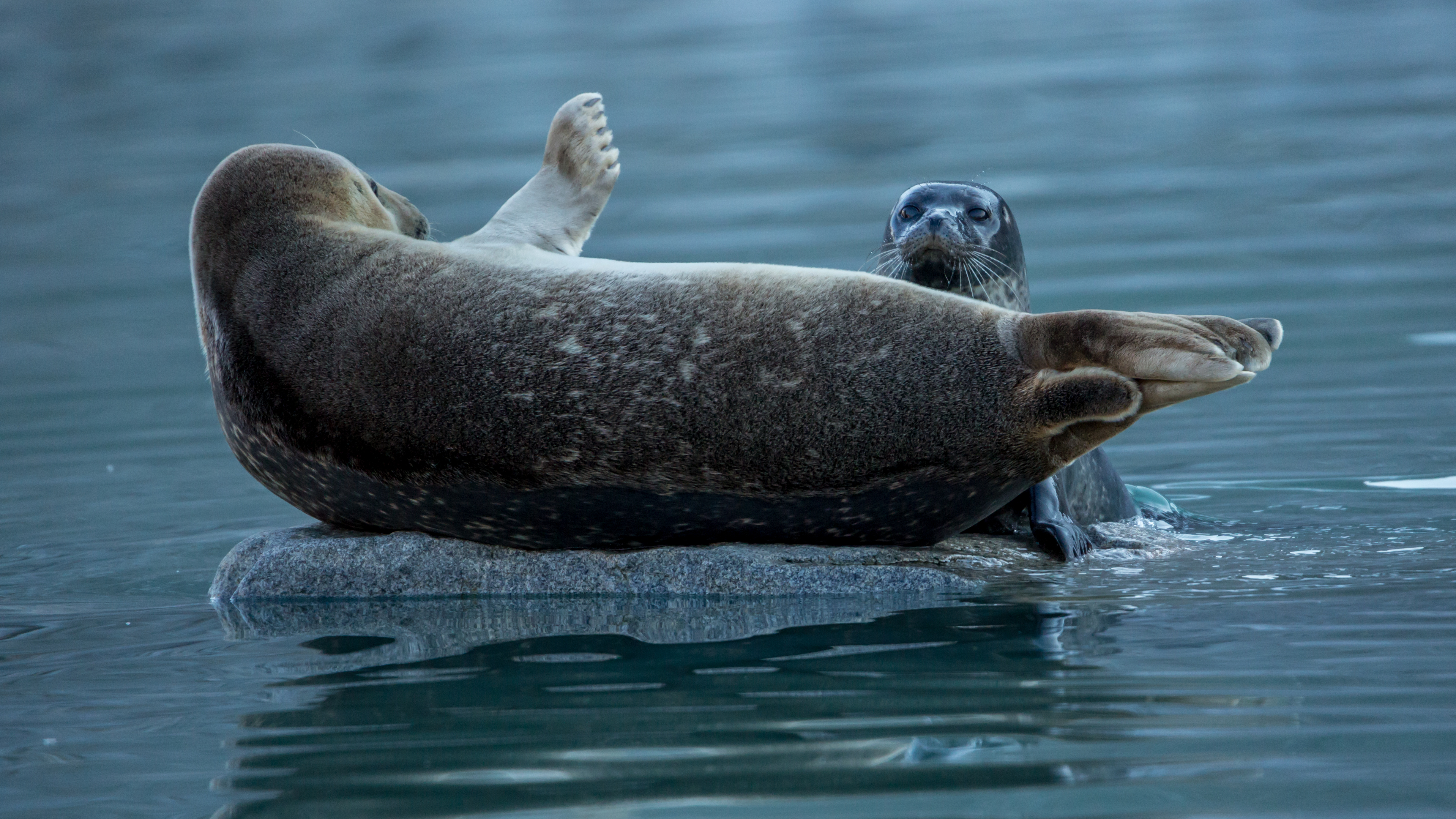 These harbor seals Phoca vitulina live in a community of about 20 animals in Magdalen fjord in the north of Svalbard.